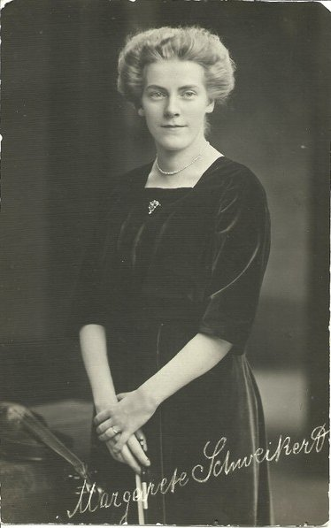 Post card with autogramme of the German musician Margarete Schweikert (1887-1957).